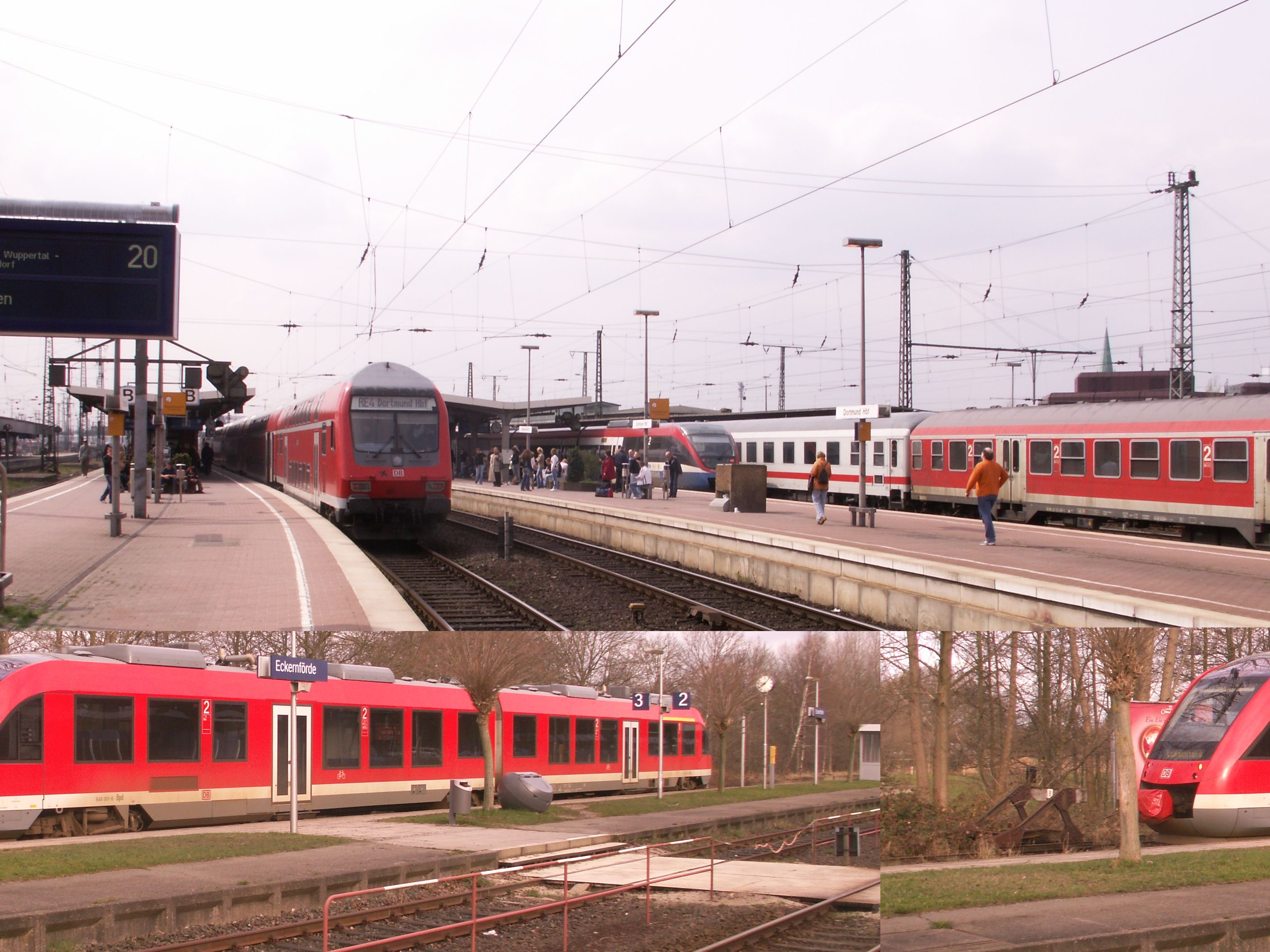 photographed by me